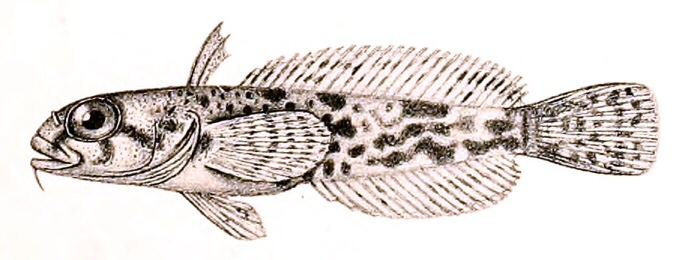 Artedidraco skottsbergi, holotype, NRM SYD/1902041.3163. Snow Hill I., Antarctic Peninsula